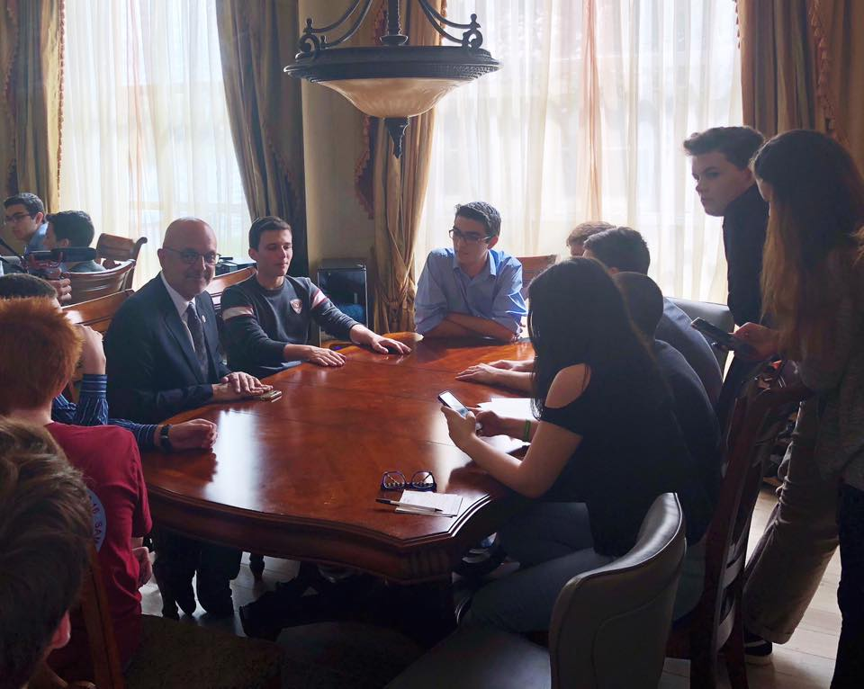 Ted Deutch March for Our Lives